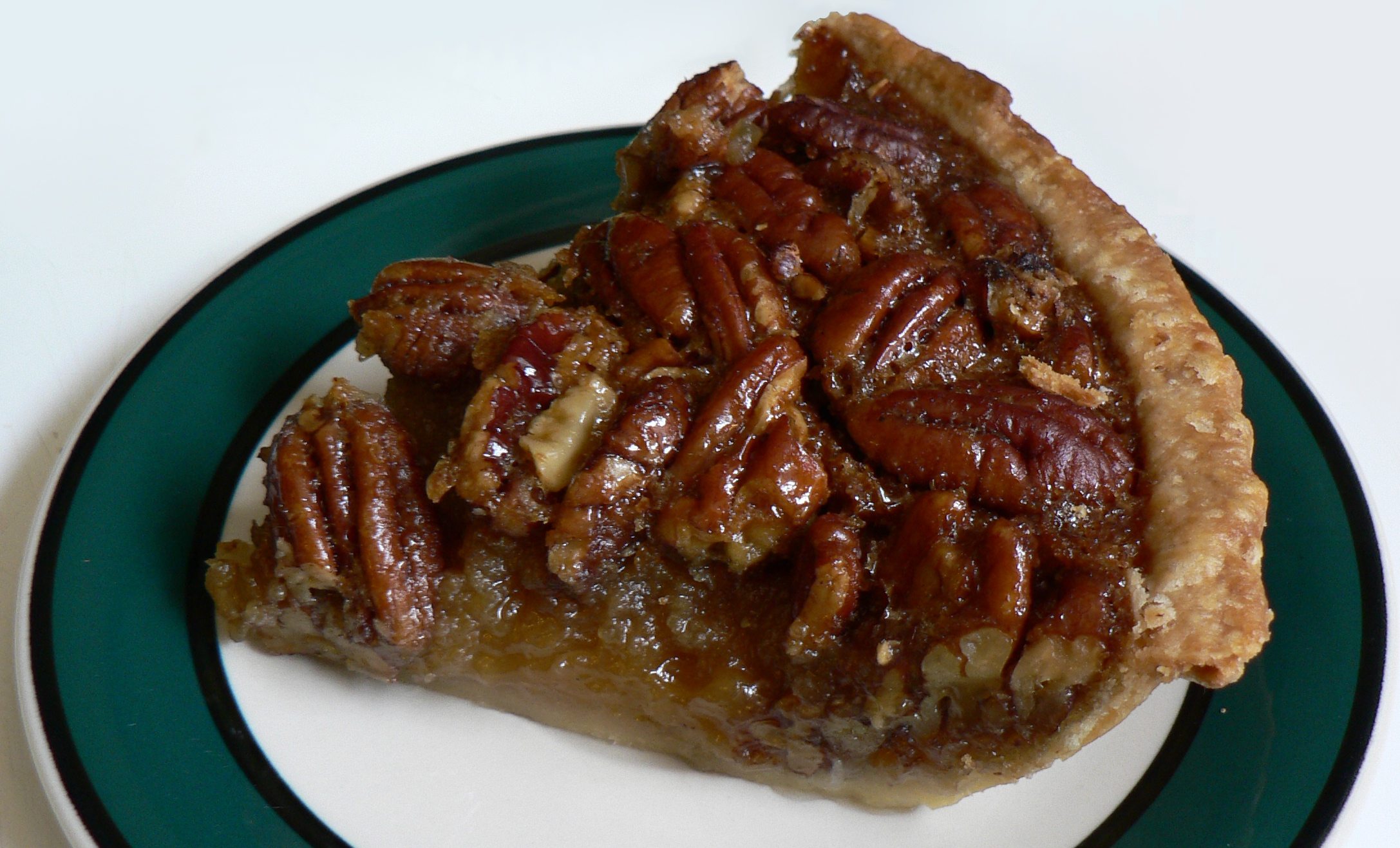 A slice of pecan pie. (Edited with GIMP 2.6.11 - Omitted background items)